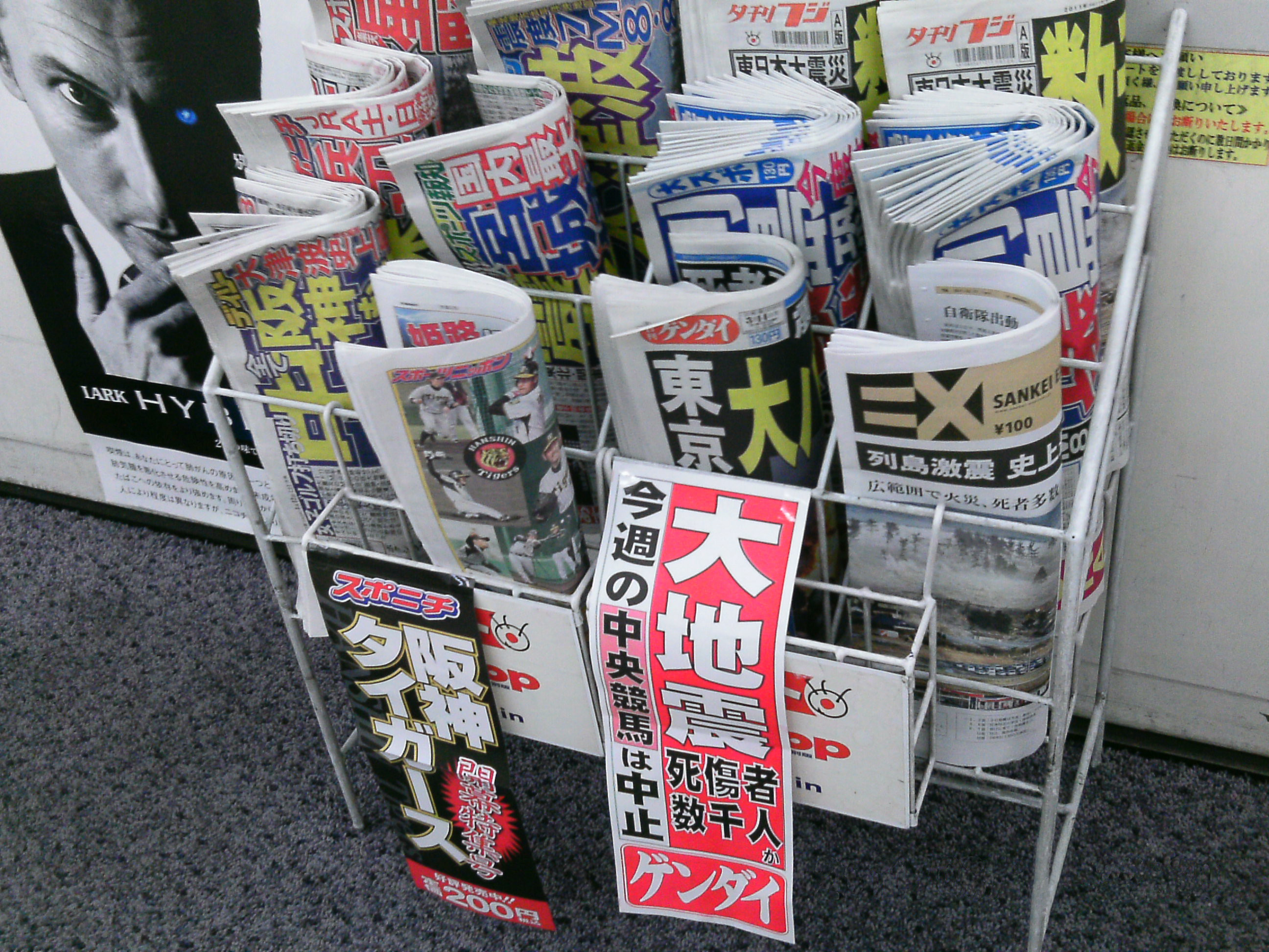 Touhoku-Tsunami Shock at Tsuruhashi Station Newspepar Stand